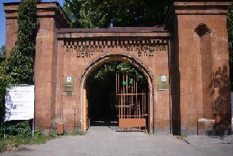 Entry to the Botanival Garden of Yerevan.